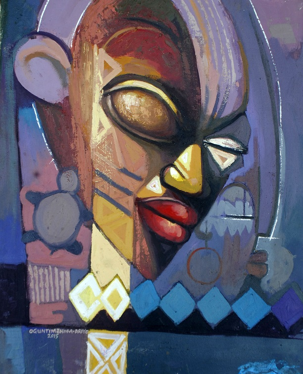 African mask influence by Gelede This is an image of Cultural Fashion or Adornment from Nigeria